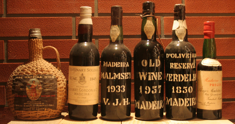 Typical Madeira wine bottles